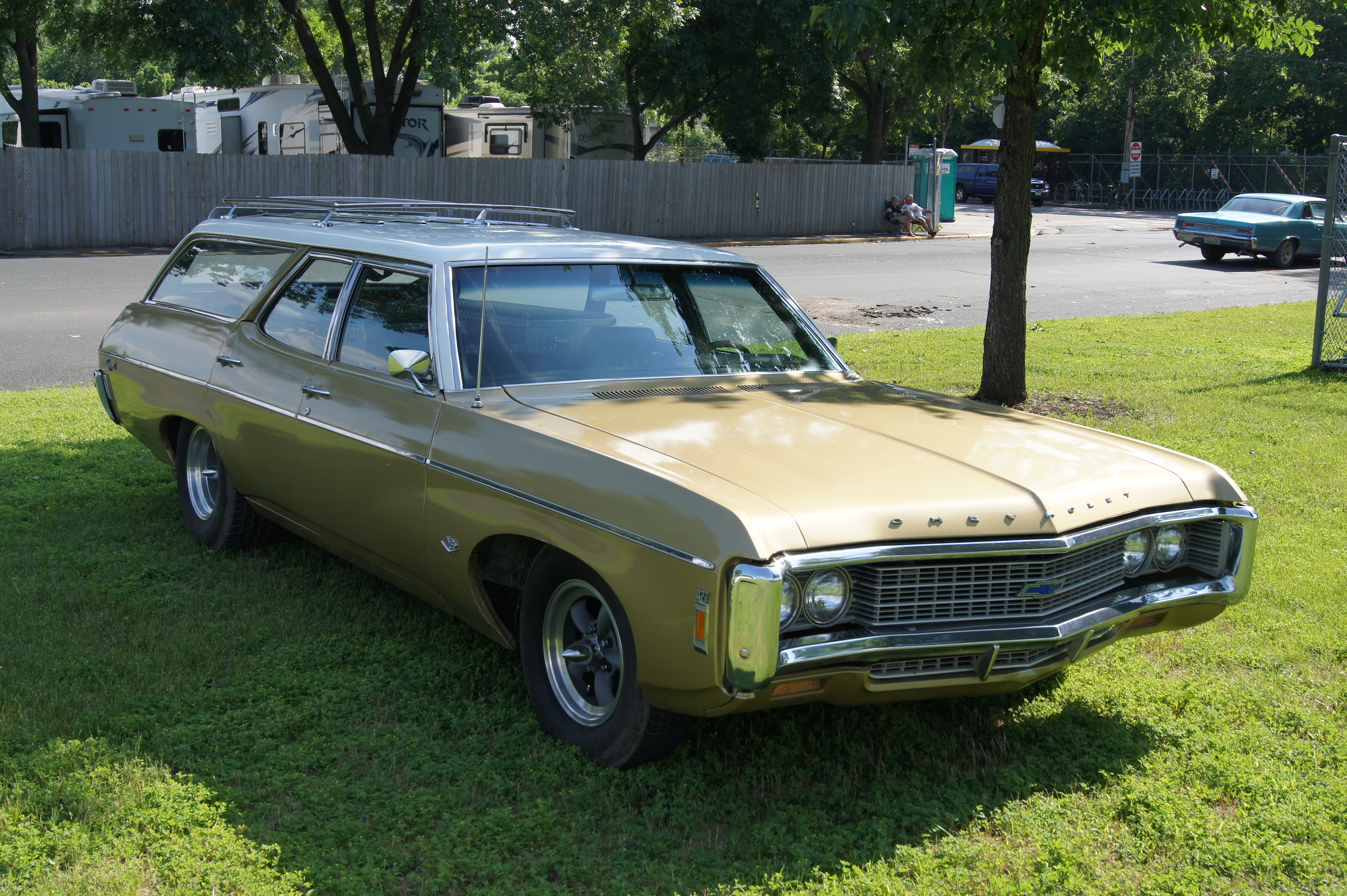 MSRA “BACK TO THE 50′s” 40th ANNIVERSARY June 21-23, 2013 State Fairgrounds St. Paul Minnesota More Car Pictures